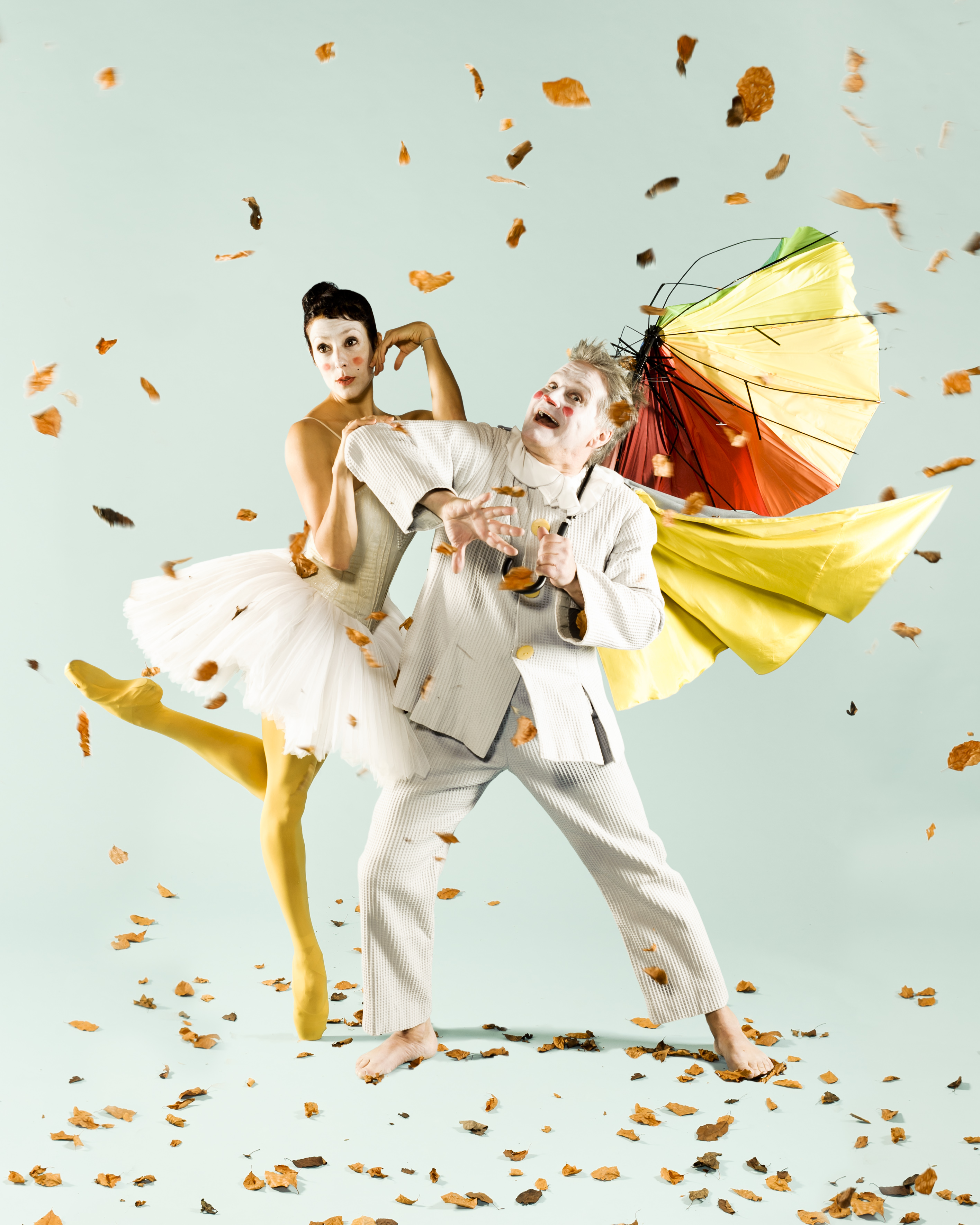 A 2011 promotional photo for a 2012 ballet/pantomime production at the Royal Swedish Opera starring Bo W Lindström as Pierrot and Nicole Hedman as Harlekina. Photo by Gisle Bjørneby.